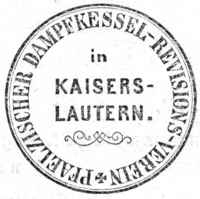 Scan from the Ministerial Law Gazette of Bavaria, 1876